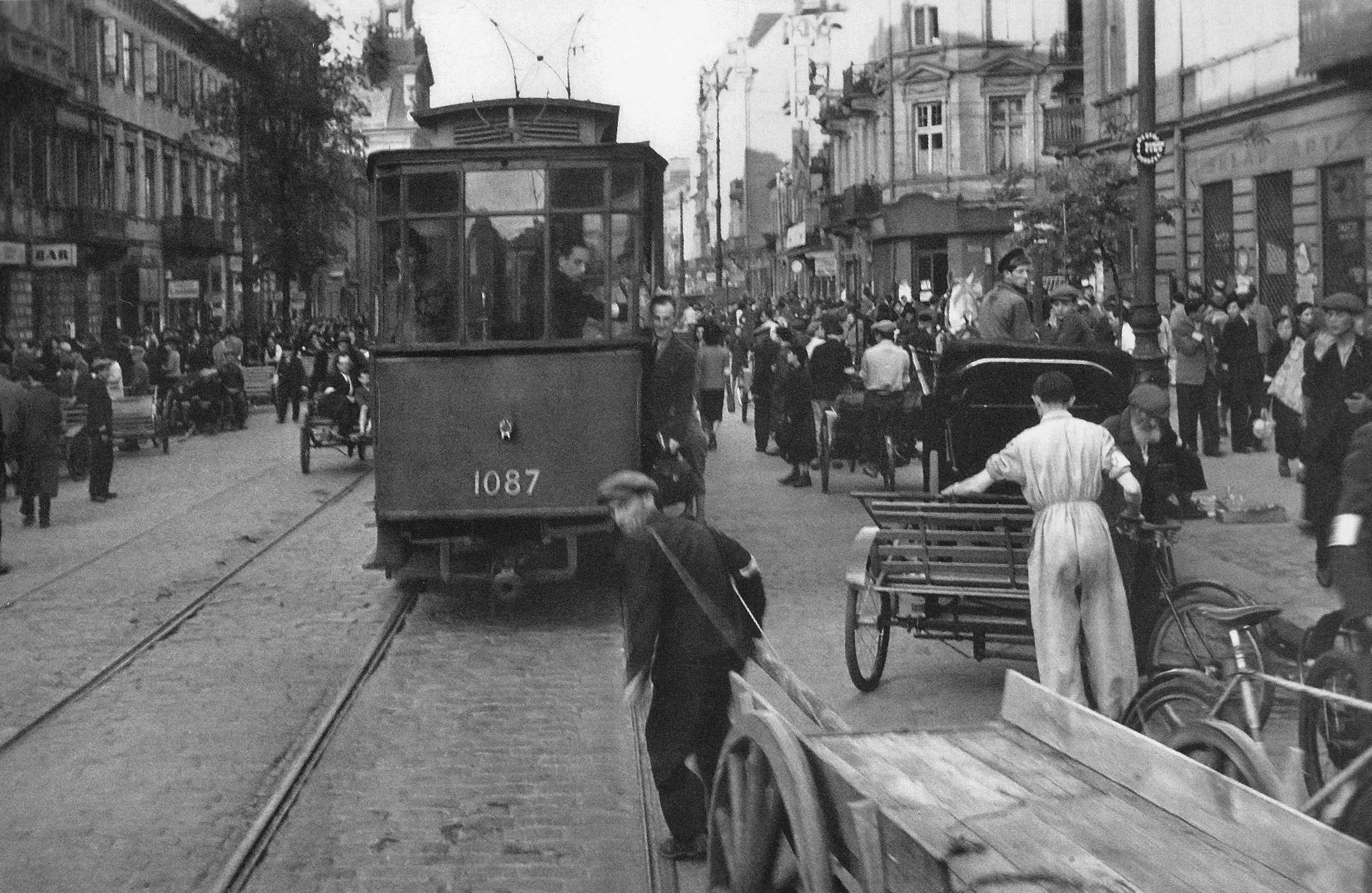 Leszno Street at Solna Street in Warsaw, view to the east